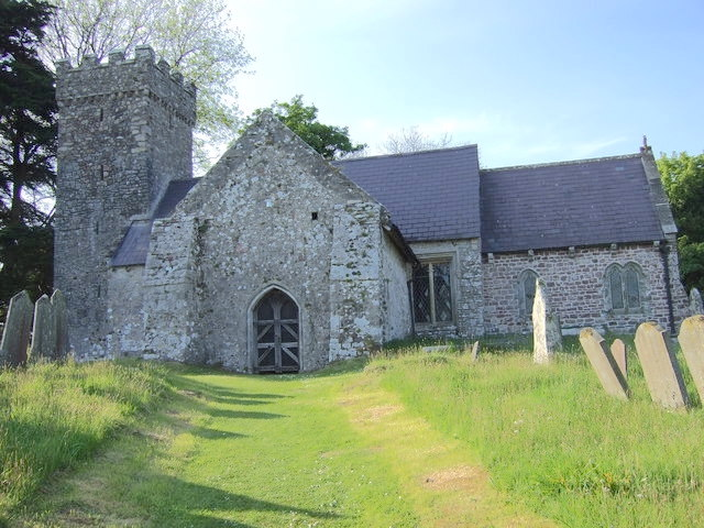 St Andrew's, Penrice Another squat little Gower church with a fortified tower, but its solid construction did not prevent it from losing its roof to a storm in 1720. The original building dates back to the C13 but it has been substantially restored in subsequent centuries.